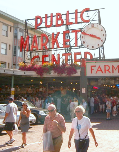 Southwest corner of a busy, sunny Pike Place Market, emphasizing the historic "Public Market Center" sign. In the background can be seen tourists waiting for Pike Place Fish Market hawkers to "throw the fish".